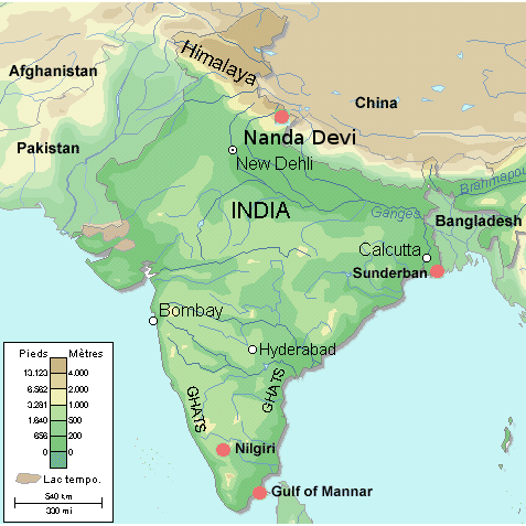 Biospheres of India till 2012(1.Nilgiri, 2.Gulf of Mannar, 3.Sunderban, 4.Nanda Devi)